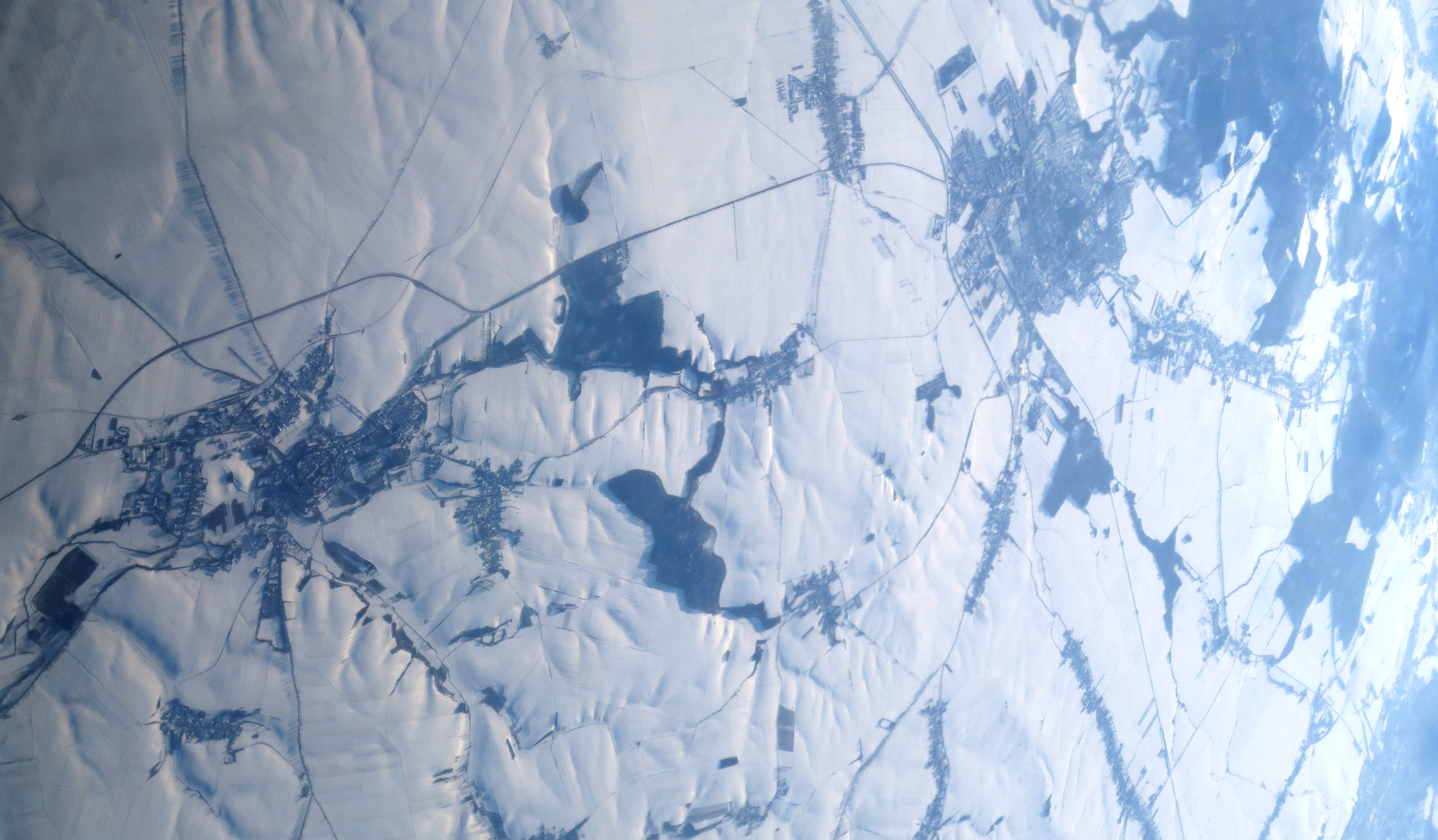 Aerial view from Southern Poland - the village Biała in the foreground, and Prudnik in background.